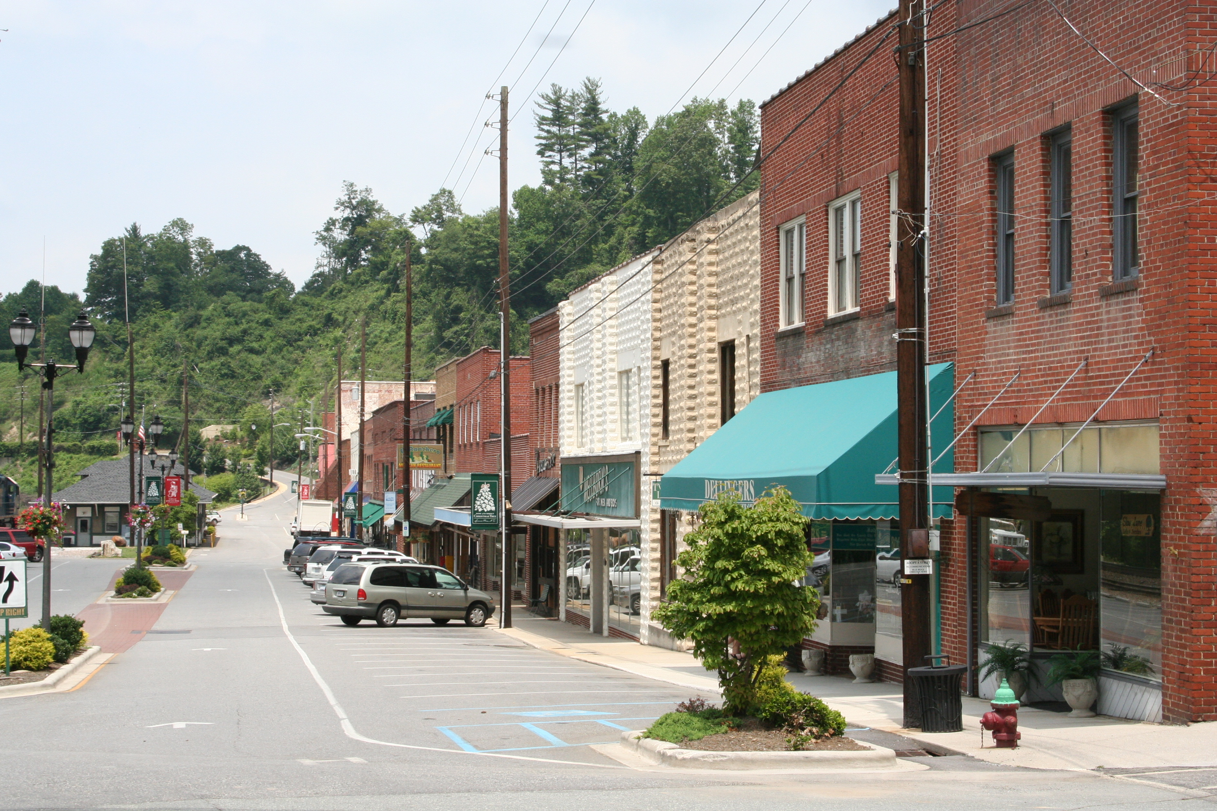 Down town Spruce Pine around Noon